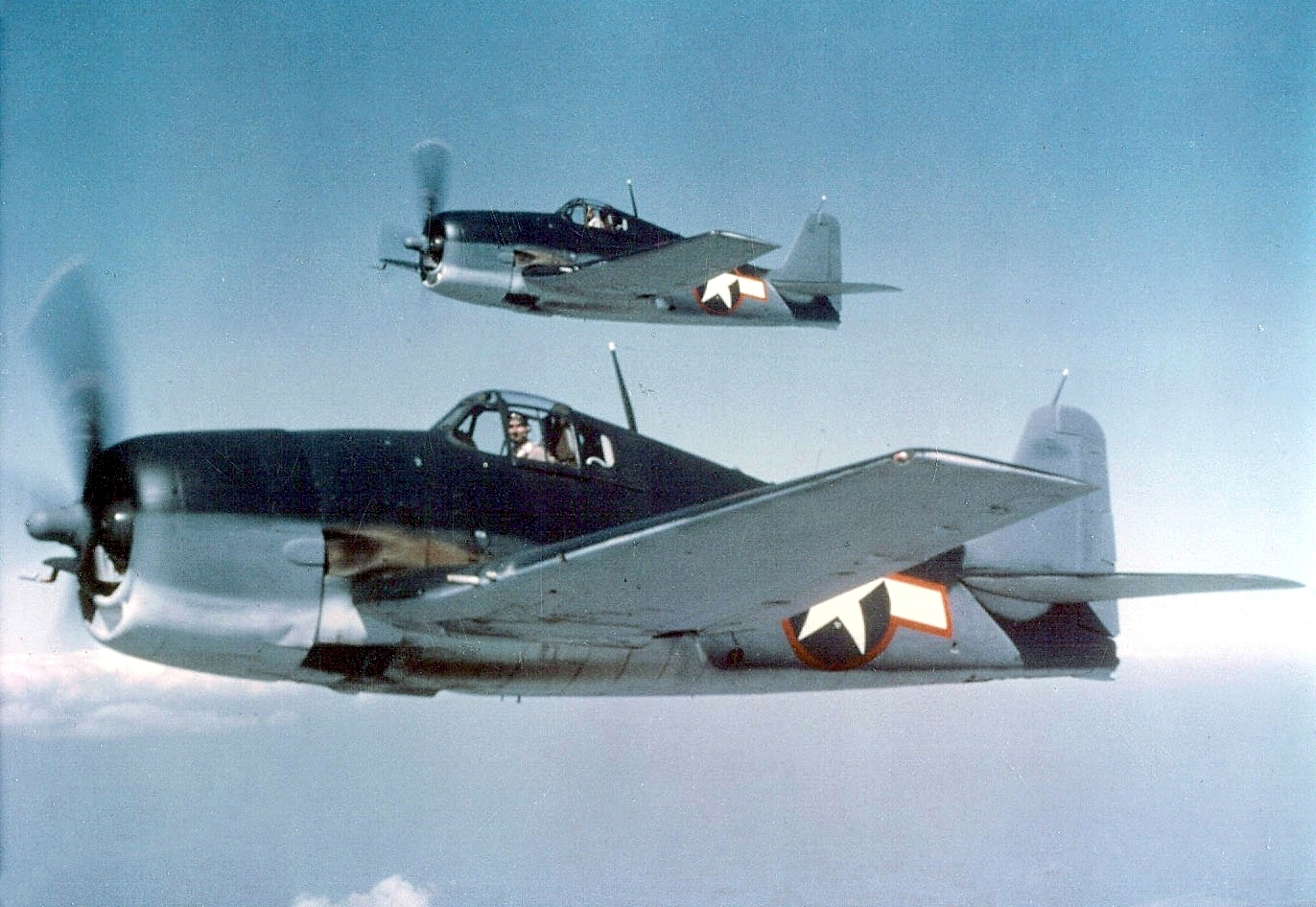 Two U.S. Navy Grumman F6F-3 Hellcats in tricolor camouflage, sea blue, intermediate blue, and insignia white.